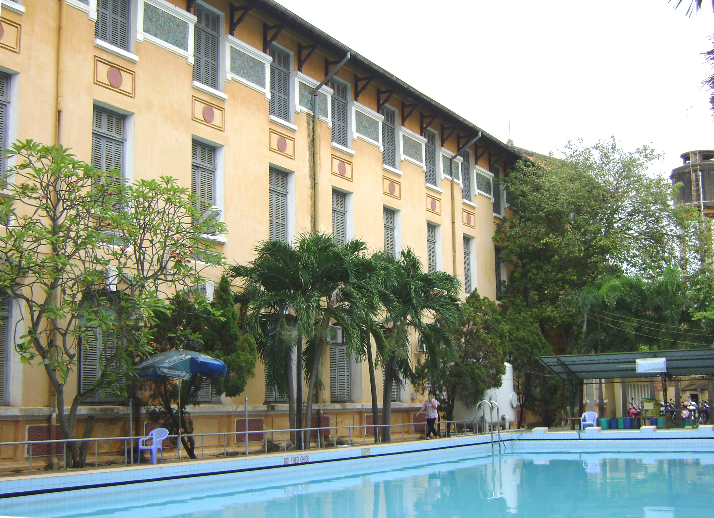 This swimming pool was built together with the new building in Nguyễn Thị Minh Khai senior high school, sponsored by VVOB Project.